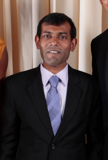 Mohamed Nasheed, President of the Maldives, during a reception at the Metropolitan Museum in New York